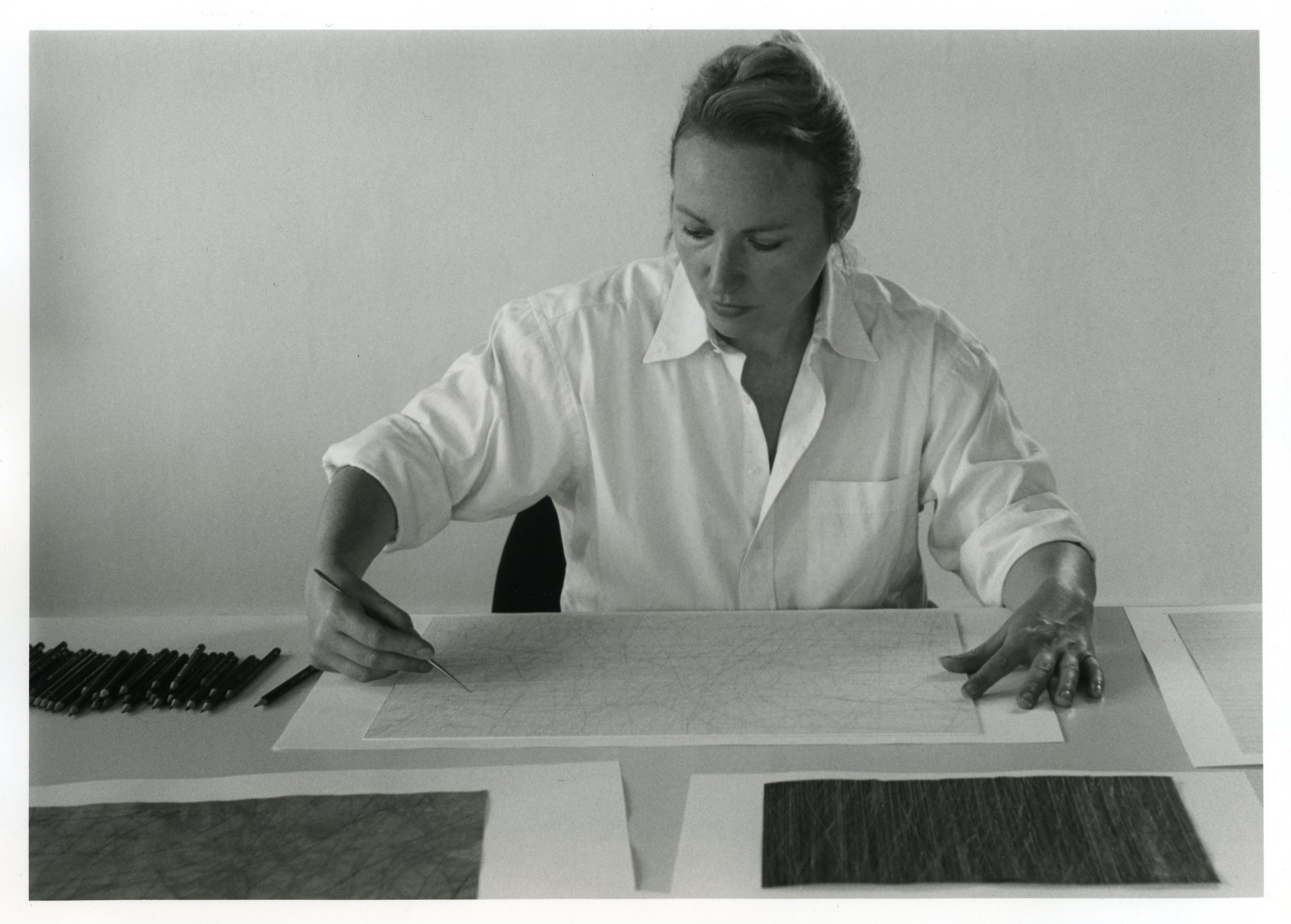 Portrait of Lucie Beppler made by Barbara Klemm. From the Series "Künstlerporträts"